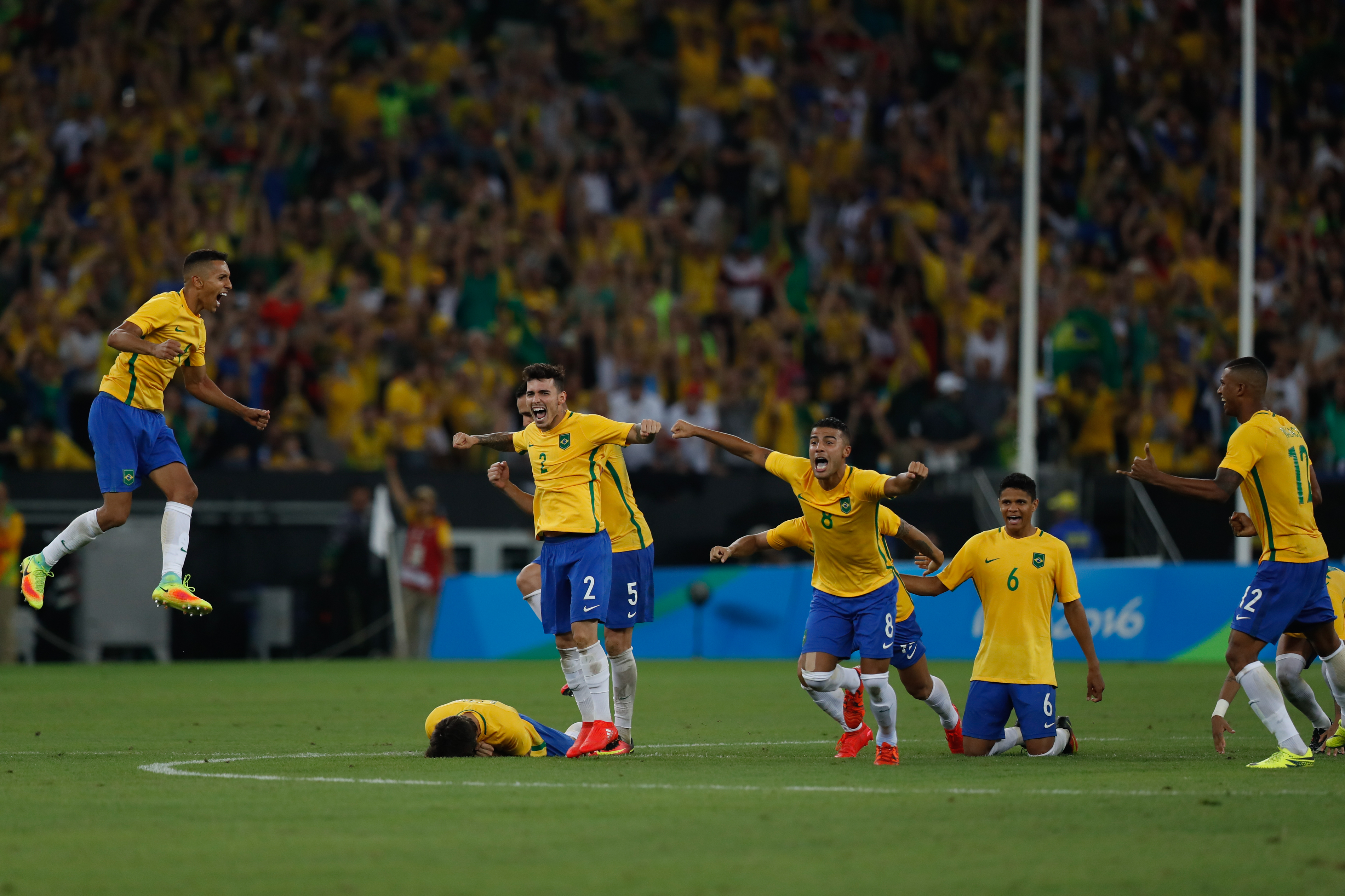 Rio de Janeiro - Brasil vence Alemanha e conquista primeiro ouro olímpico do futebol (Fernando Frazão/Agência Brasil)